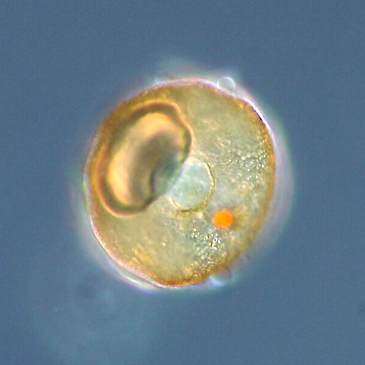 Arcella sp. / from Hyotaro-ike Pond, Tennodai, Tsukuba / Ibaraki Pref., Japan / Microscope:Leica DMRD (DIC)